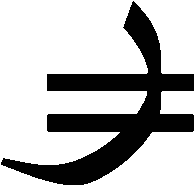 The Urdu letter "ر" (Pronounced "Ray") marked with 2 lines.